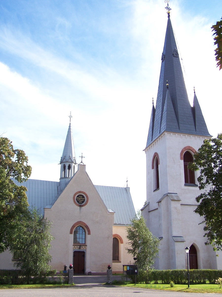 Harmånger church, Sweden